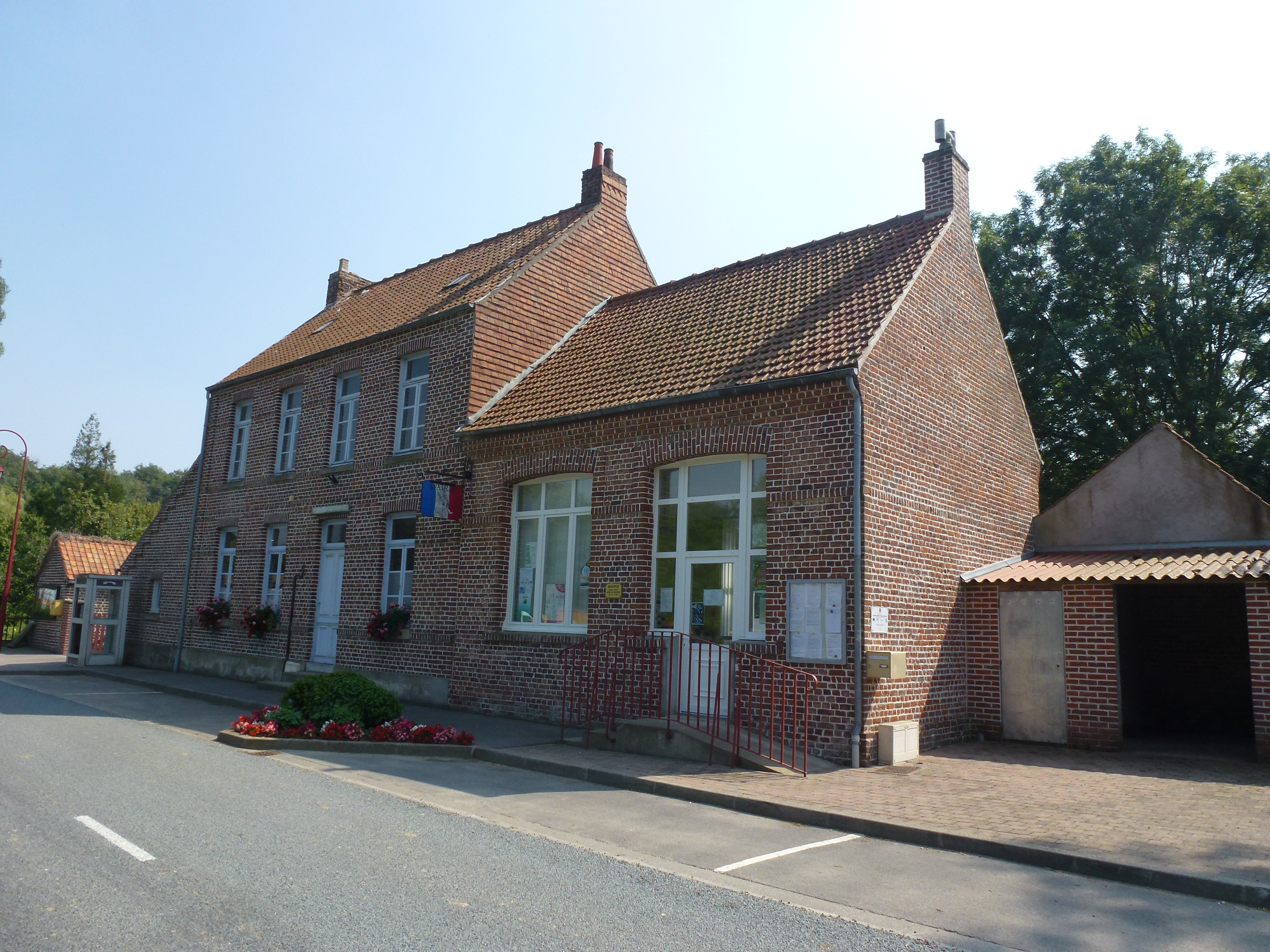 Sanghen (Pas-de-Calais) mairie